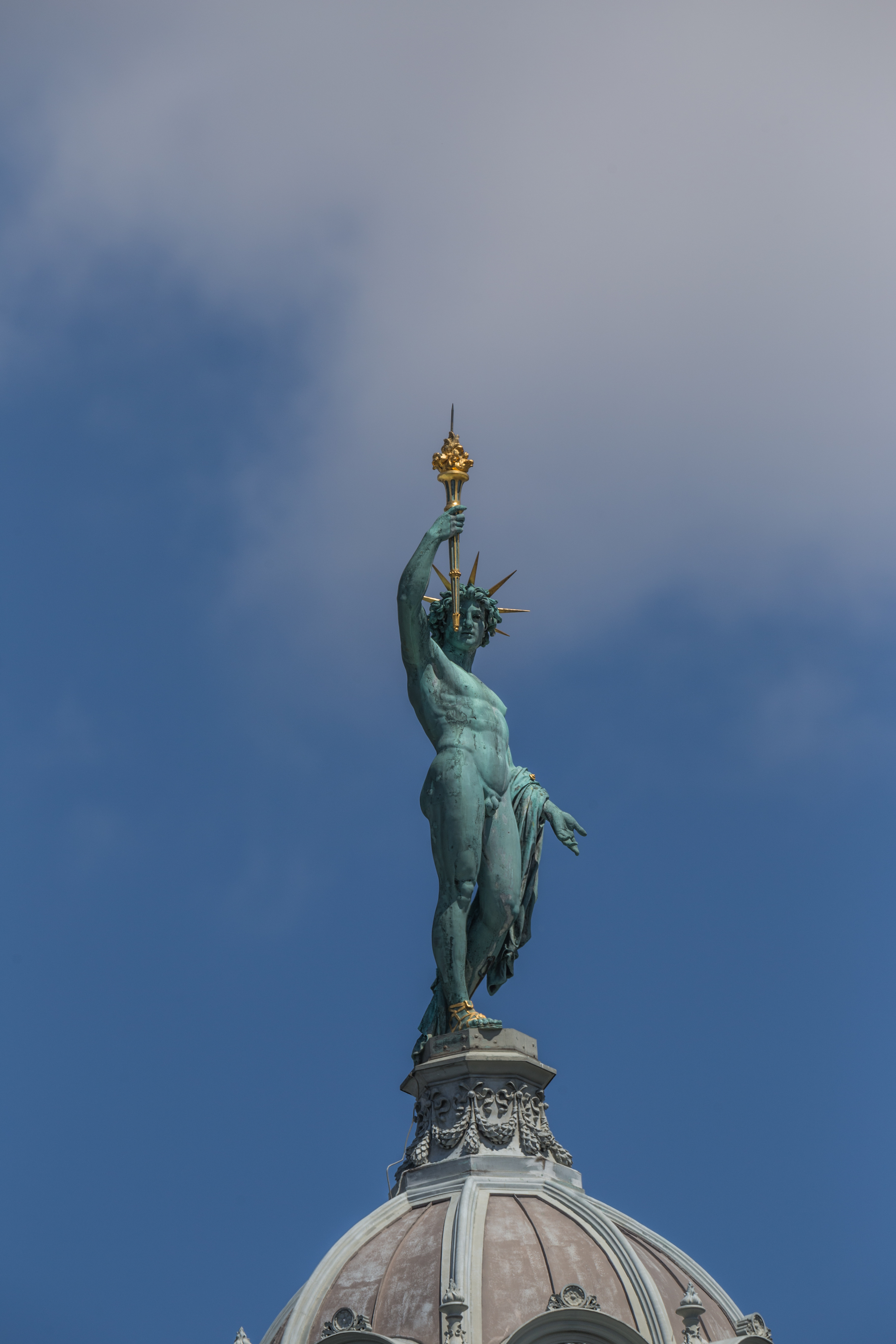 Helios, Main figure (Johannes Benk) at the Naturhistorisches Museum, Vienna